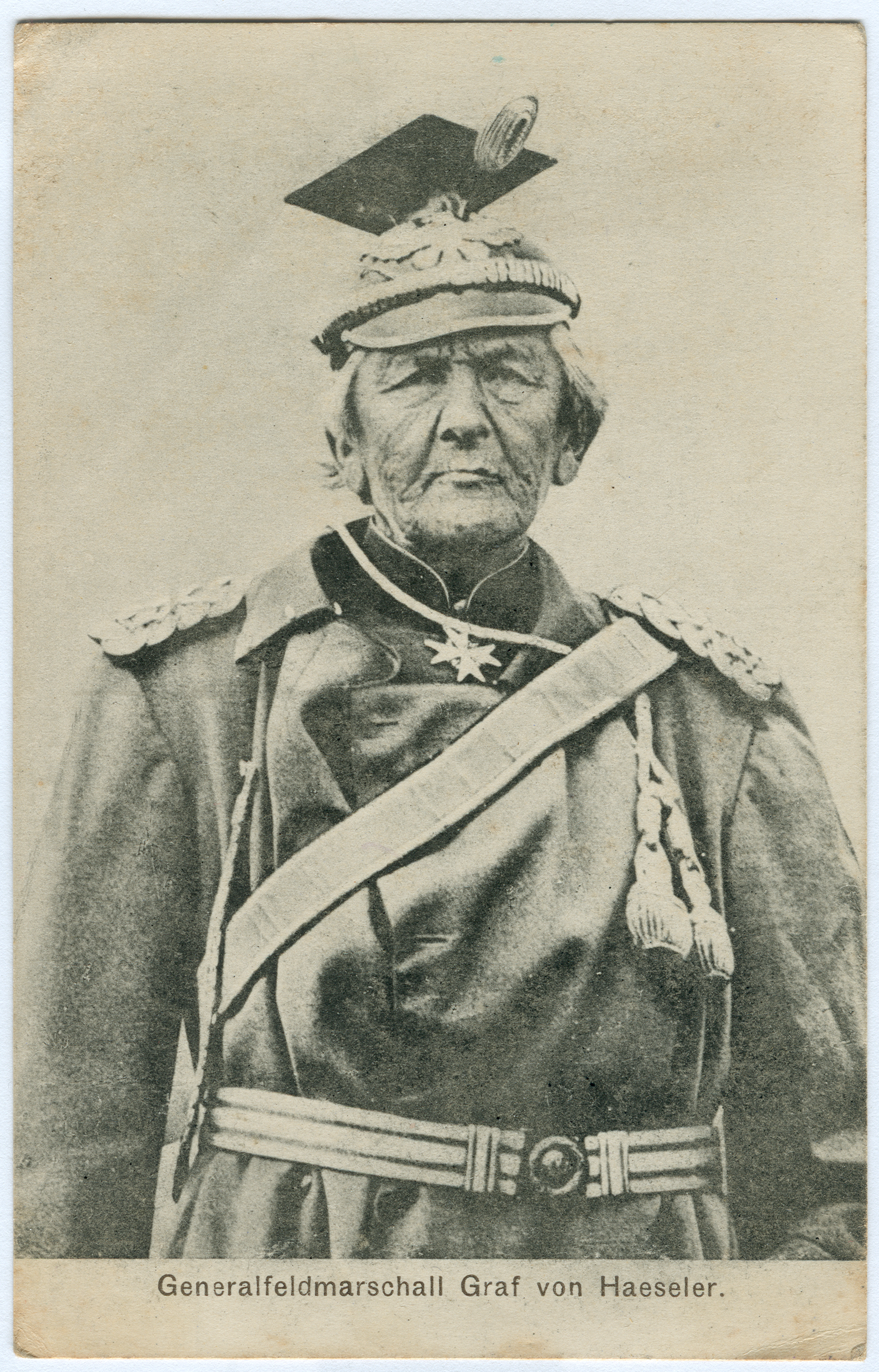 Generalfeldmarschall Gottlieb Ferdinand Albert Alexis Graf von Haeseler, after an original photo by Oscar Tellgmann, photographer of the courty "of his majesty, emperor and king" Wilhelm II.